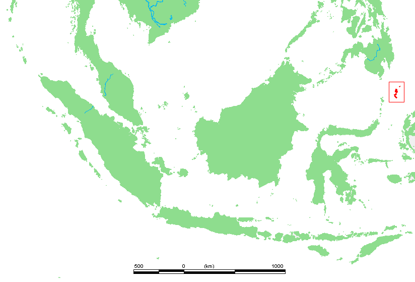 Location of :Talaud islands.